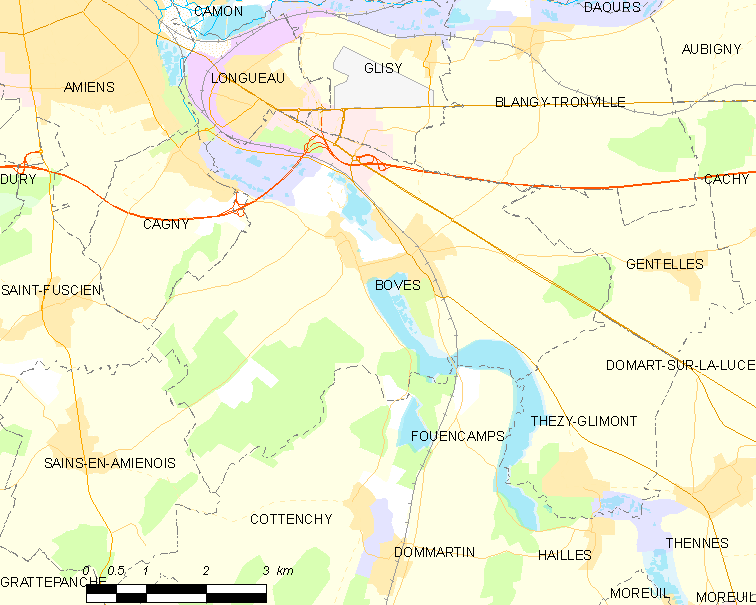 Map of French municipality Boves